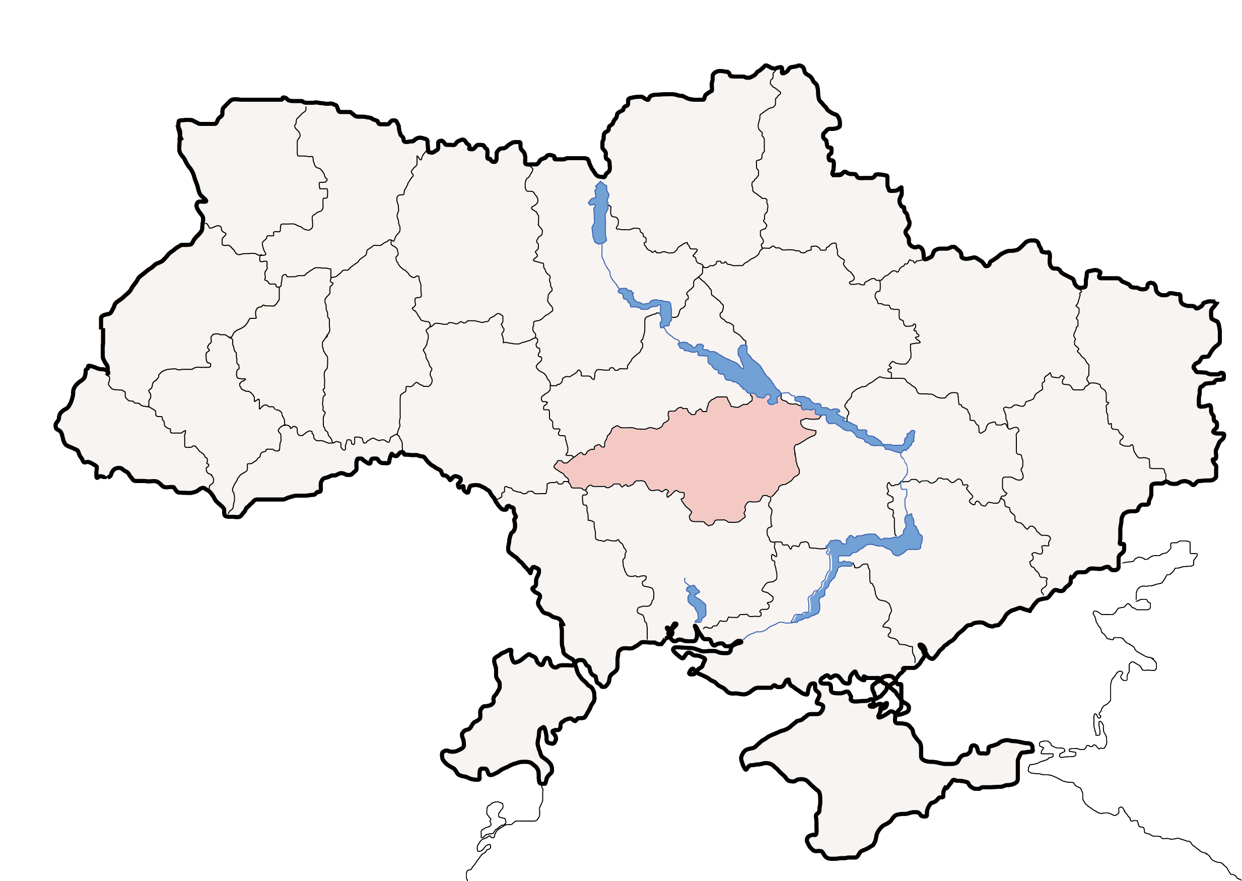 Political map of Ukraine, highlighting Kirovograd Oblast